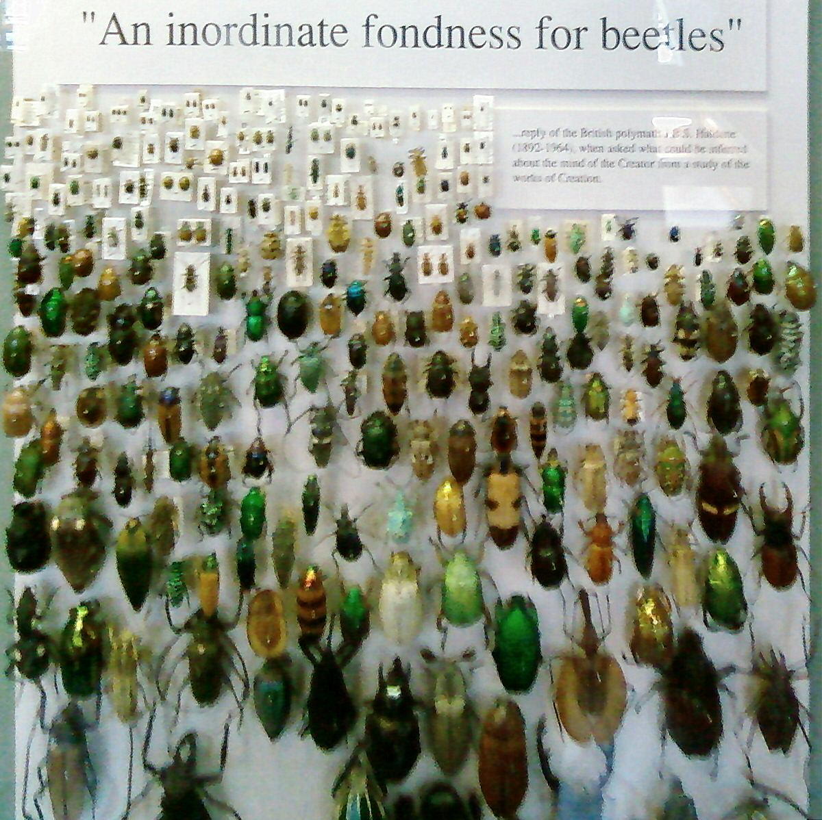 Photograph by User:GDallimore of a display at the Oxford University Museum of Natural History. The text reads: "An inordinate fondness for beetles" ...reply of the British polymath J. B. S. Haldane (1892-1964) when asked what could be inferred about the mind of the Creator from a study of the works of Creation